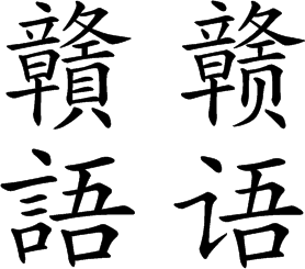 The Chinese characters "贛語/赣语" meaning Gan Chinese, made using the 汉鼎简中楷/汉鼎繁中楷 truetype font